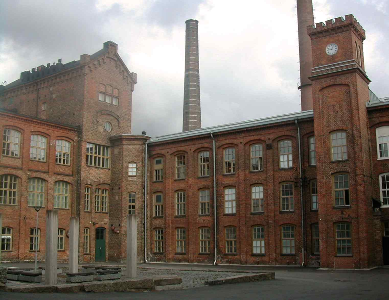 The former cotton mill in Vaasa was founded in 1856 and was in use until 1979. During the years 1988-97 the old factory was extensively rebuilt on the inside to house the University of Vaasa. This part of the university is called Fabriikki.